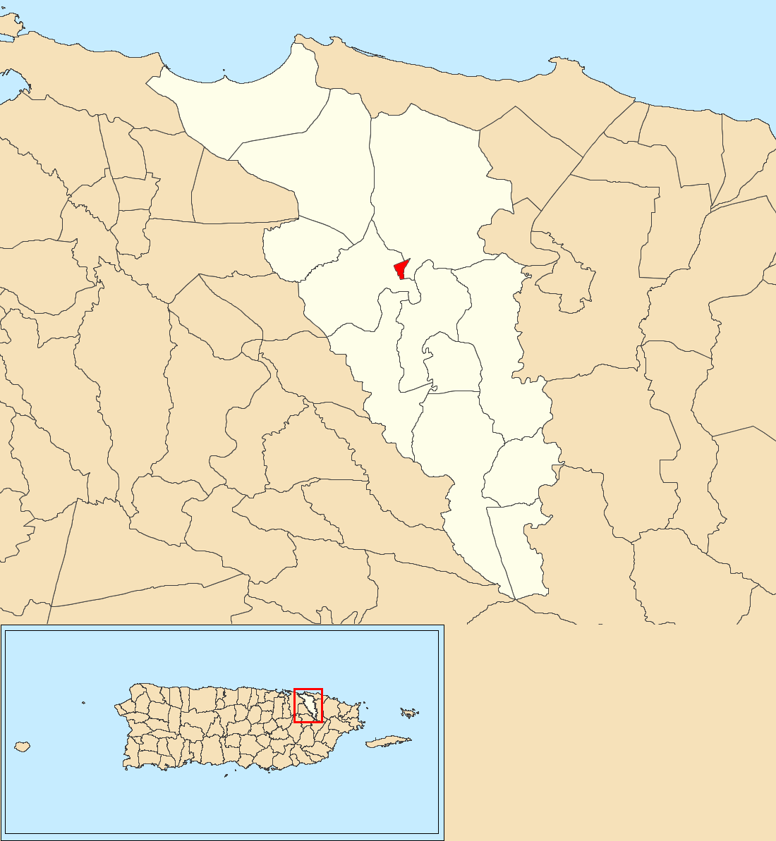 Carolina barrio-pueblo, Carolina, Puerto Rico locator map